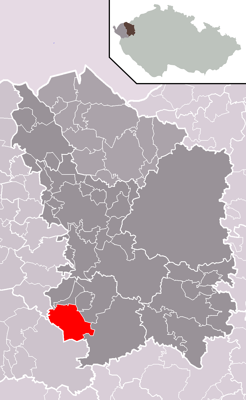 Location of Otročín municipality within Karlovy Vary District and administrative area of Karlovy Vary as a Municipality with Extended Competence.